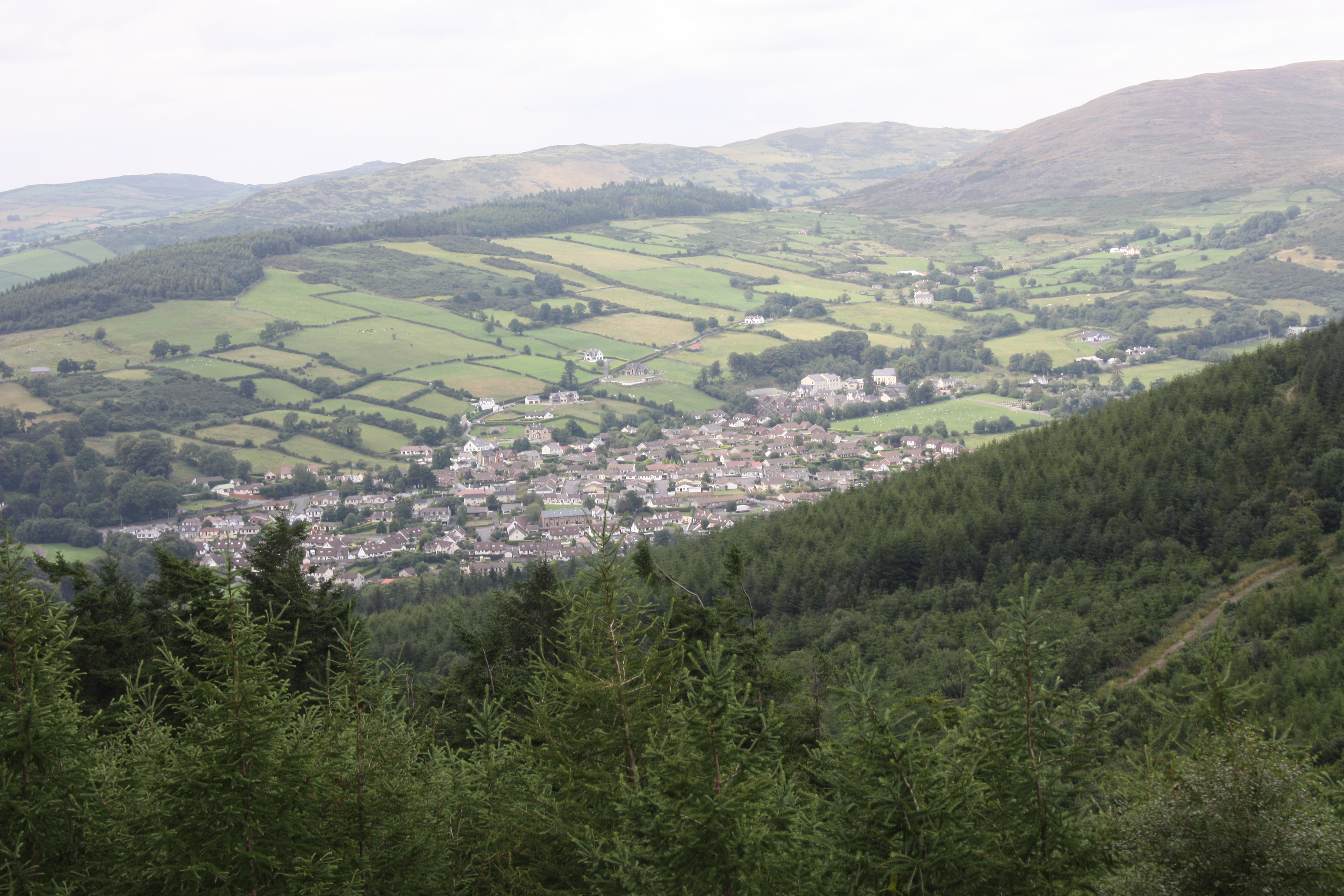 Rostrevor, County Down, Northern Ireland, July 2010 (viewed from Rostrevor Forest)